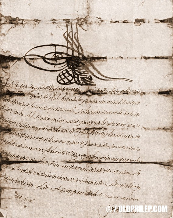 Firman from the Naib of the Prilep Kaza for the attachment of Veparchani and Bonche to the Prilep Kadilik